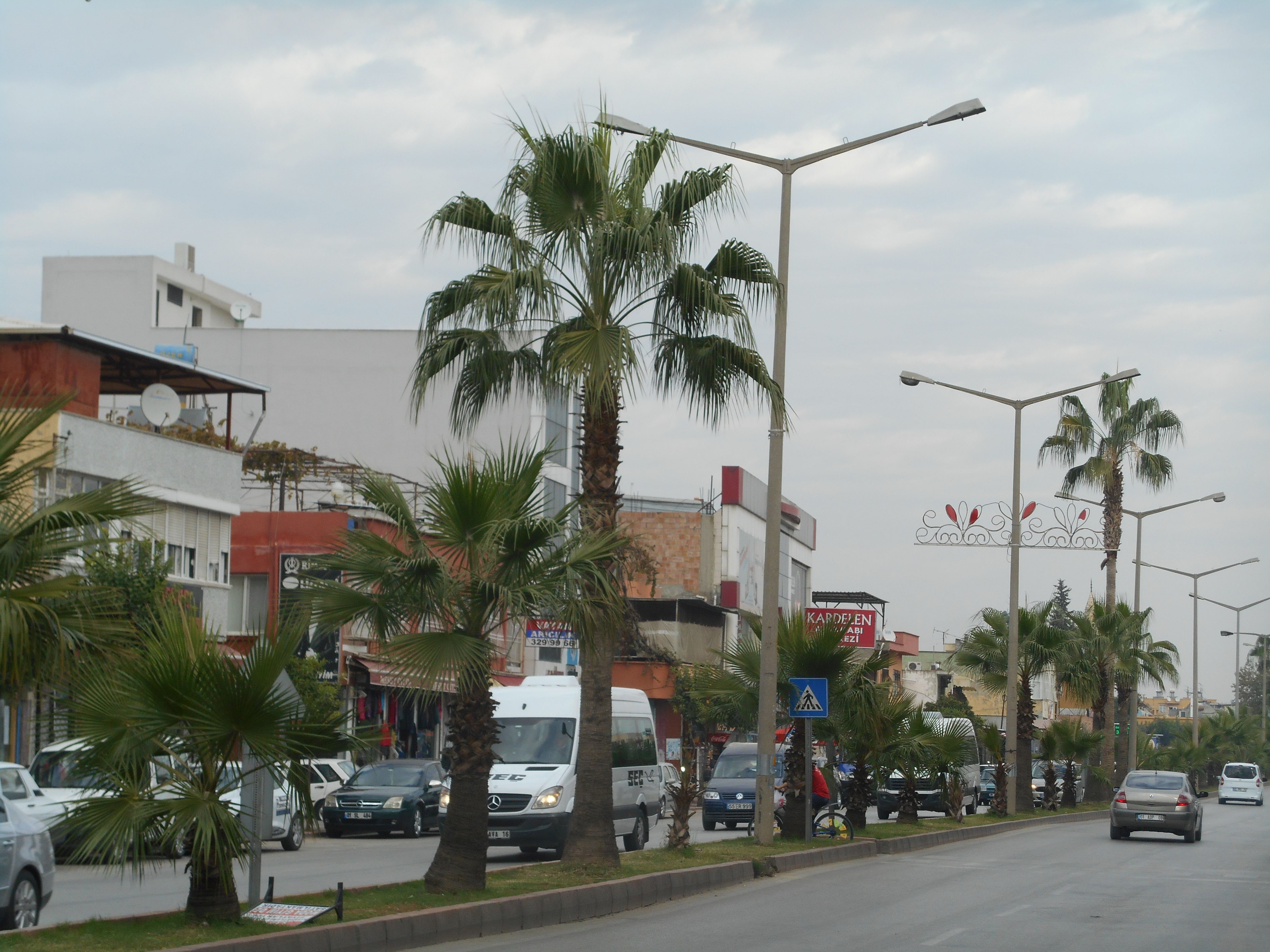 View from Yüreğir